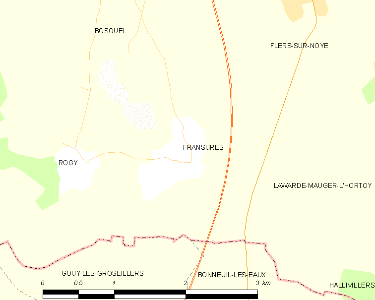 Map of French municipality Fransures